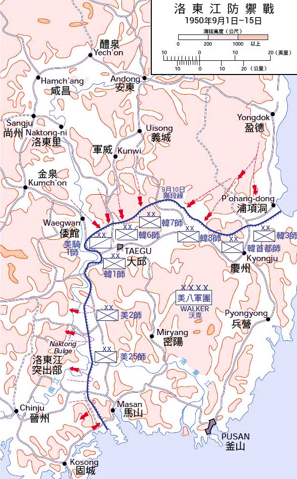 Map of the Naktong Defense lines, September 1950.Localization work of: File:Naktong Defense.jpg